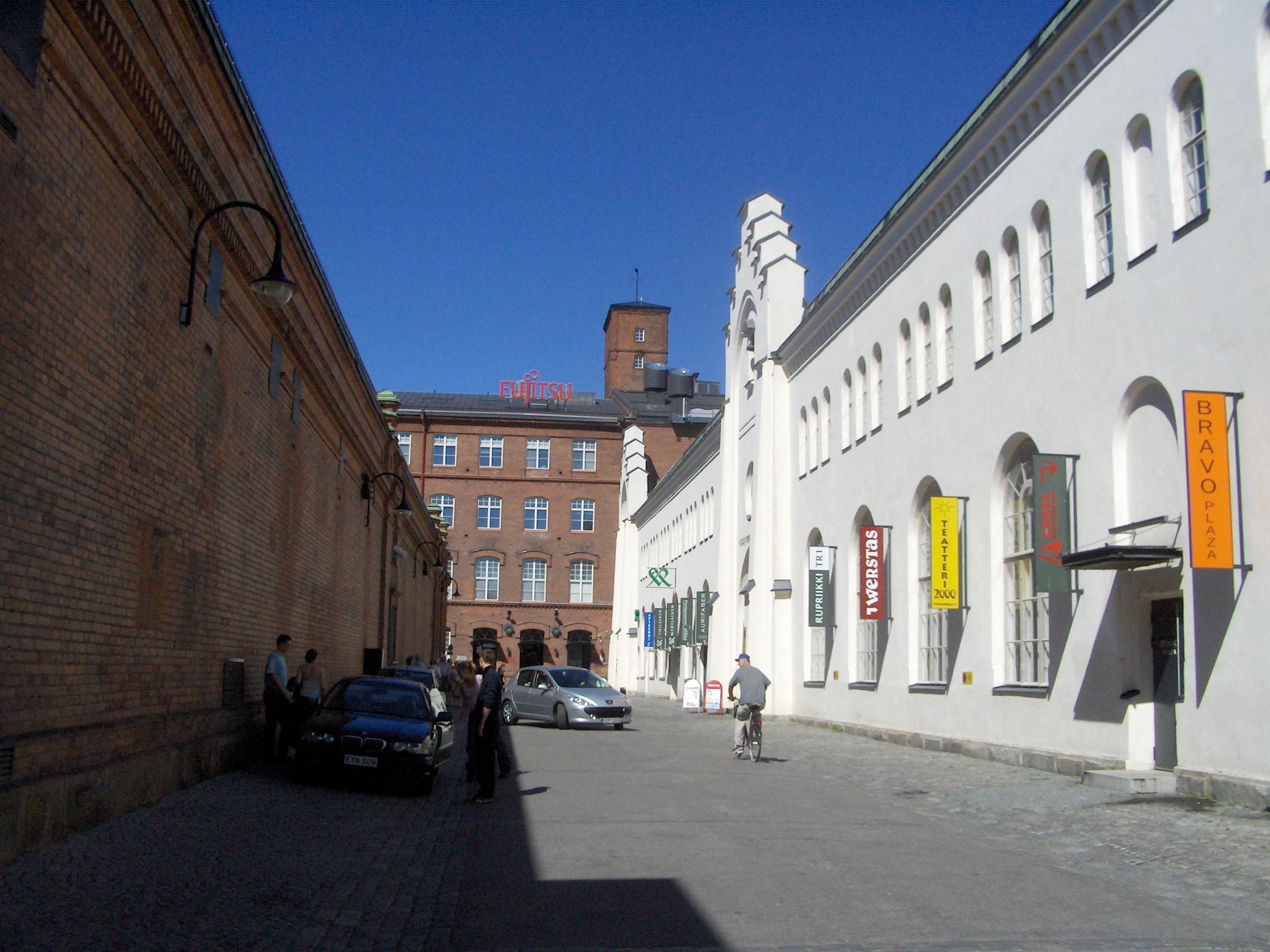 Finlayson factory area in Tampere